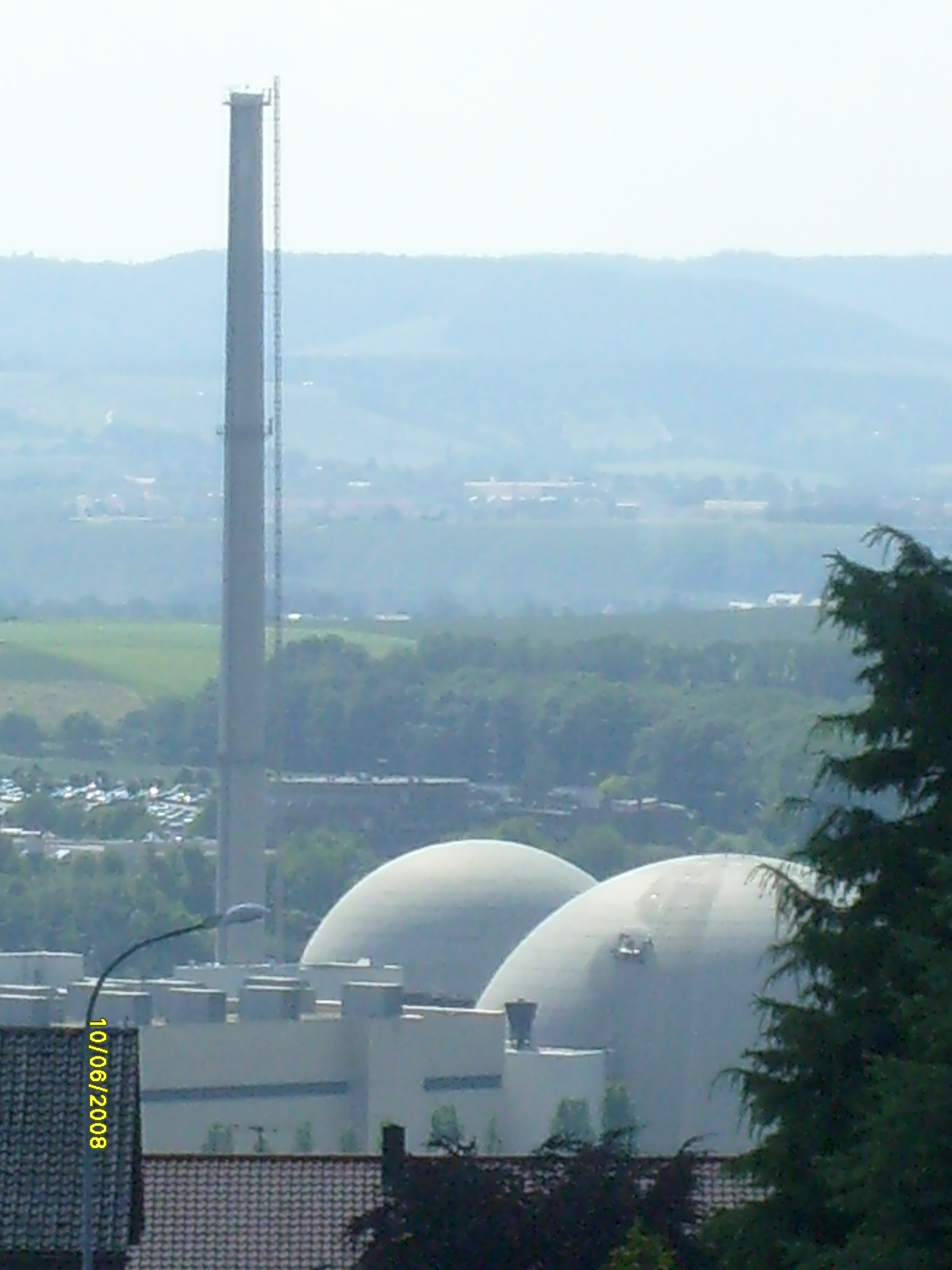 A machine on the reactor Neckarwestheim-2